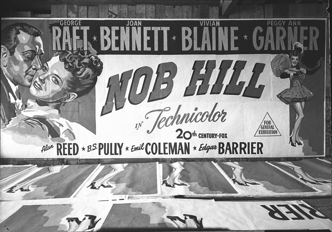 "Nob Hill" poster, with George Raft, Joan Bennett, Vivian Blaine, Peggy Ann Garner, Alan Reed, BS Pully, Emil Coleman and Edgar Barrier (British Empire Films and Fox Films)